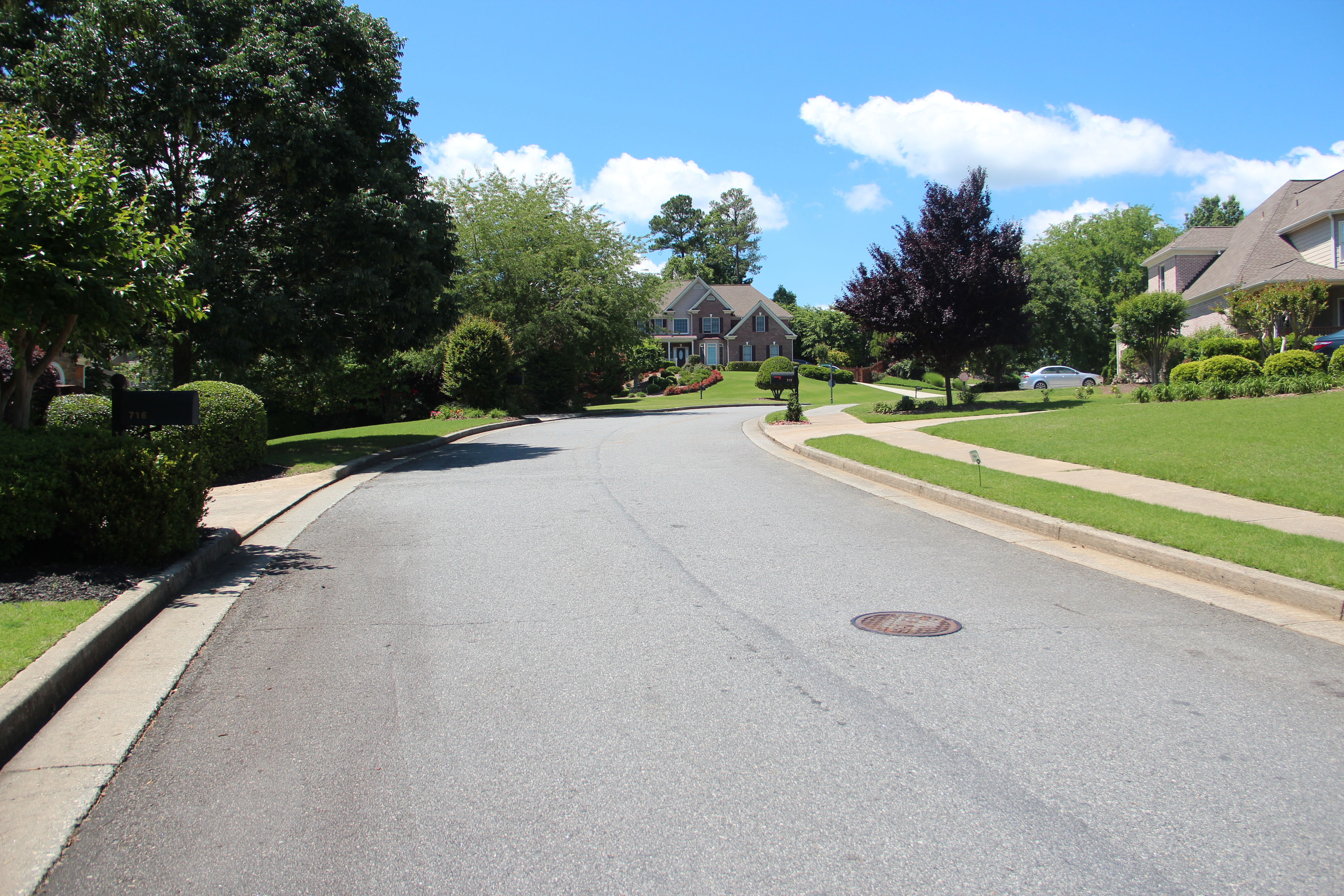 Settlers Crossing in Sixes, Georgia, at the former site of the Sixes Mine.